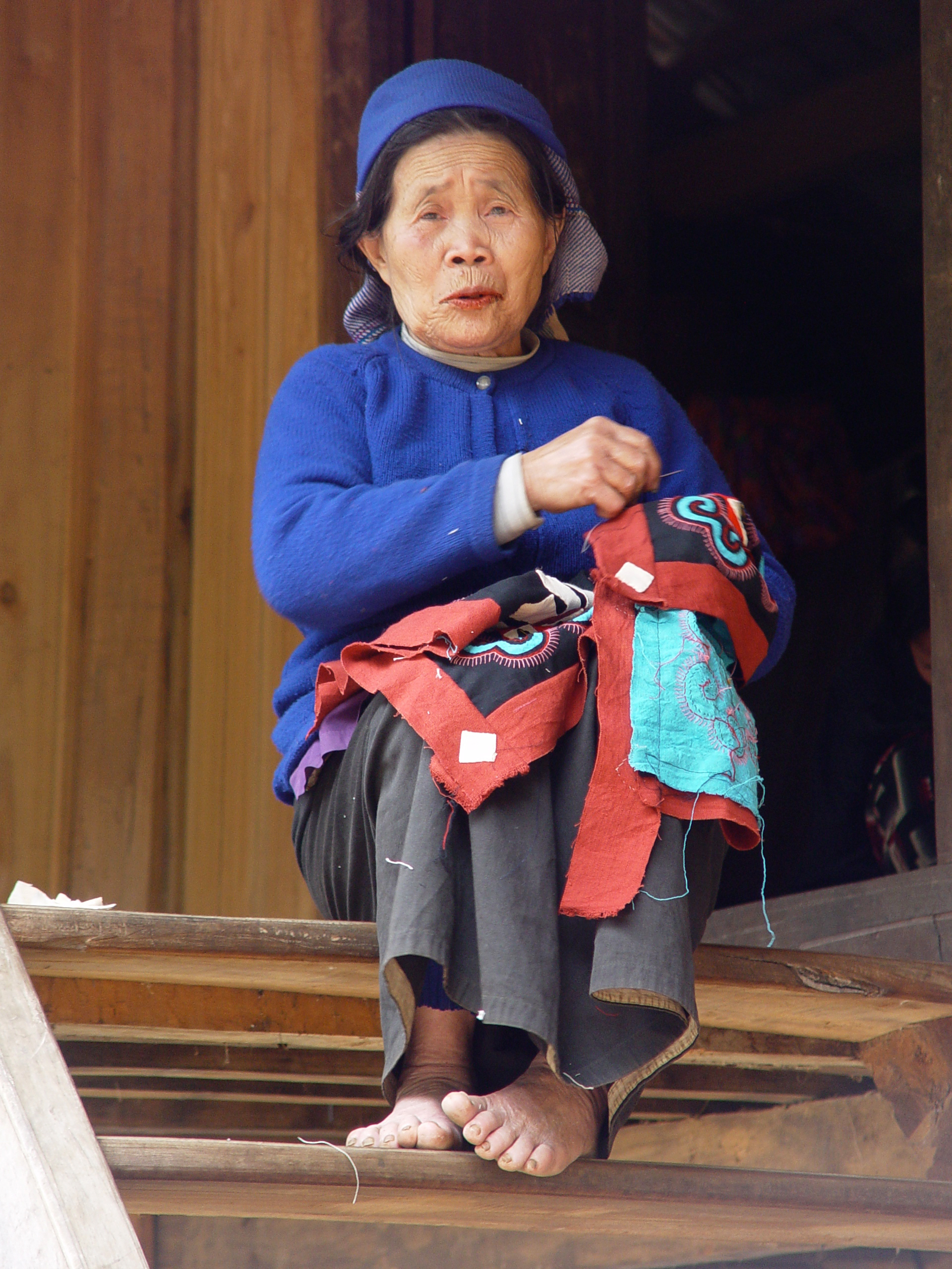 People of Mai Chau, Vietnam. Woman had blackened teeth, difficult to see.